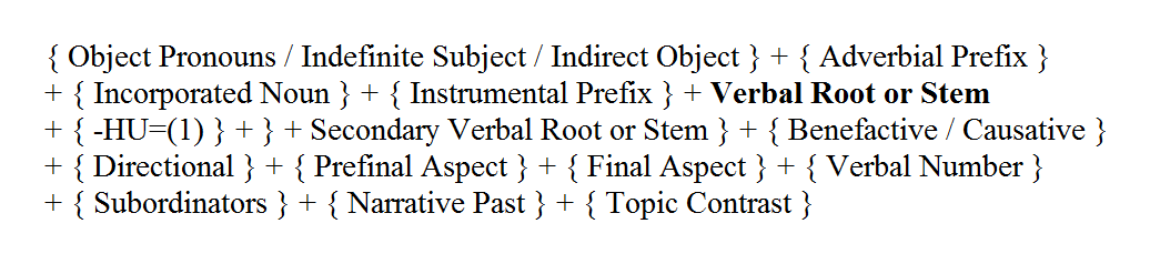 Comanche Affix Order Paradigm